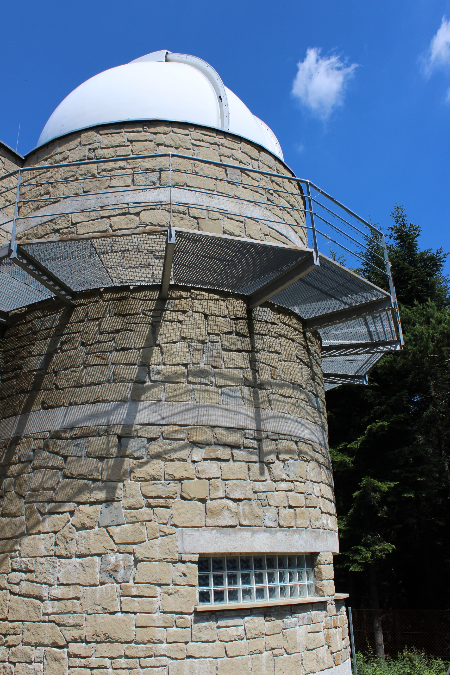 Lubomir Astronomical Observatory